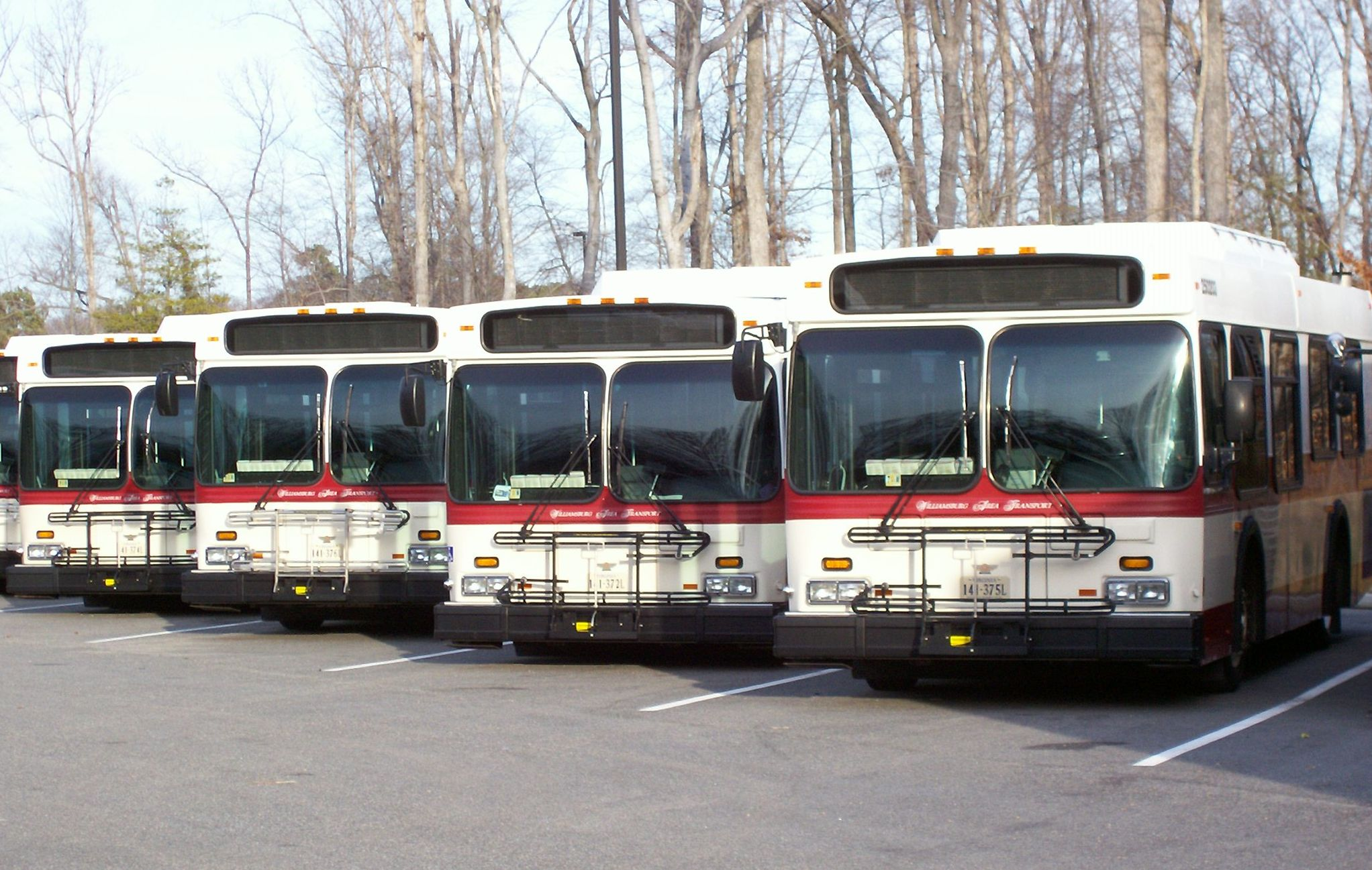 Several Williamsburg Area Transport New Flyer D30LF buses at the Williamsburg Bus Facility in James City County, Virginia.